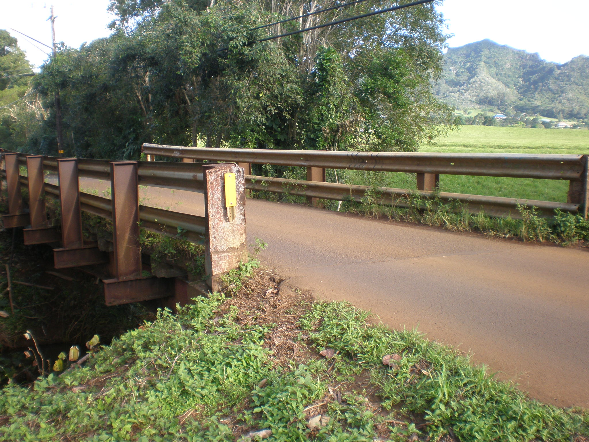 Puʻuʻōpae Bridge (top side), Puʻuʻōpae Road, Kapaʻa, Kauaʻi, one-lane, steel truss, on National Register of Historic Places